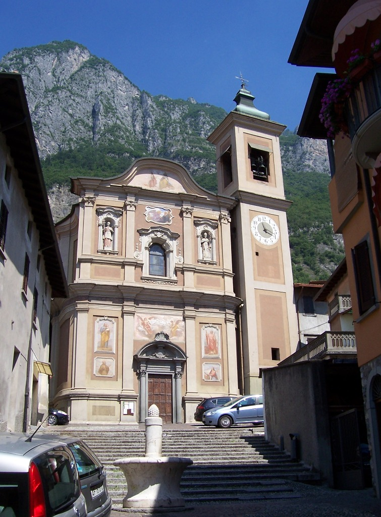 Parish church of St Rochus. Erbanno, Darfo Boario Terme, Val Camonica